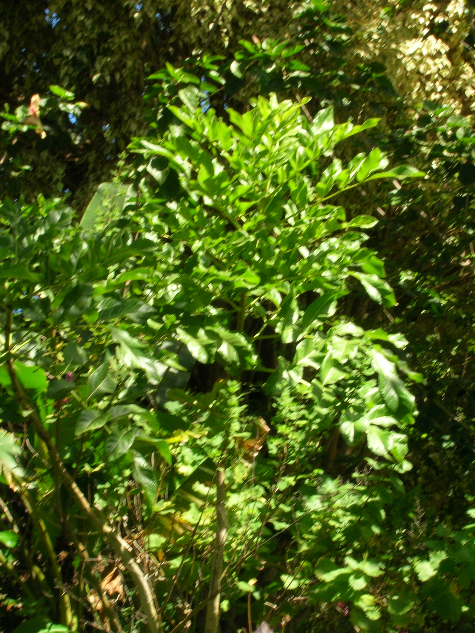 Kigelia africana (habit). Location: Maui, Enchanting Floral Gardens of Kula